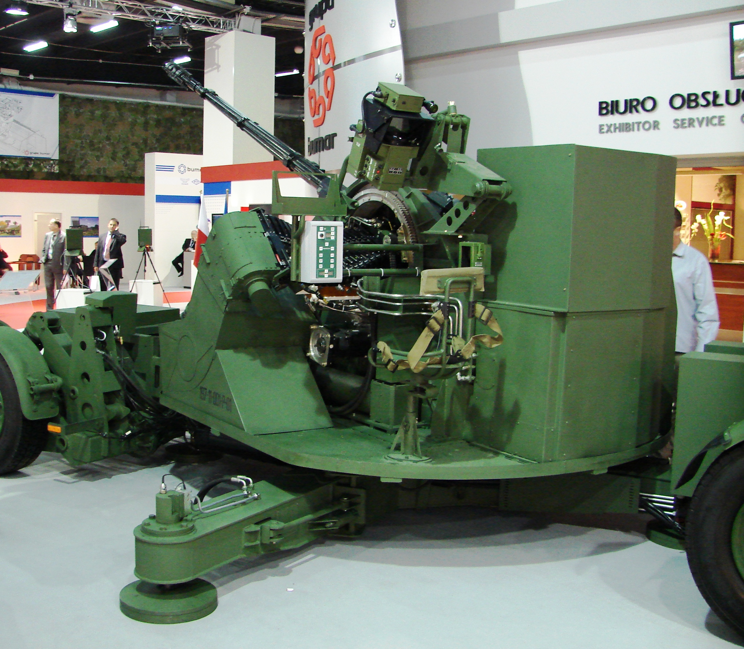 Prototyp ZSSP-35 Hydra na targach MSPO 2011.